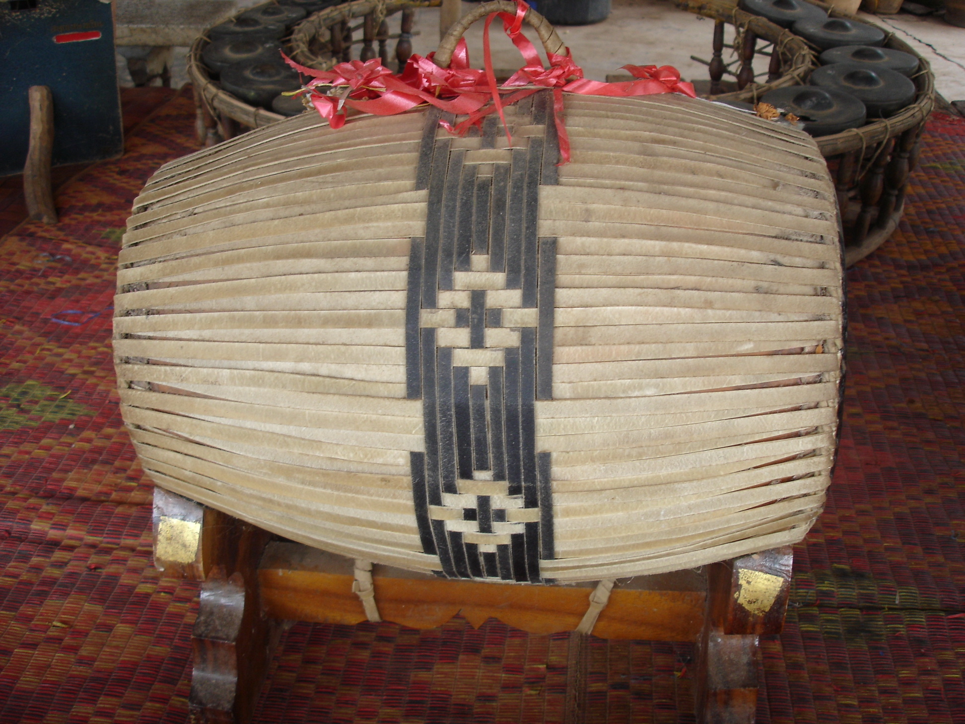 This is two-faced drum called taphon. The instrument which is behind taphon is called khong wong yai.